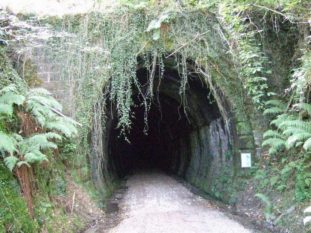 Photo of tunnel of Uitzi, taken by Dr. Karl Schlemmer at September 6th, 2007